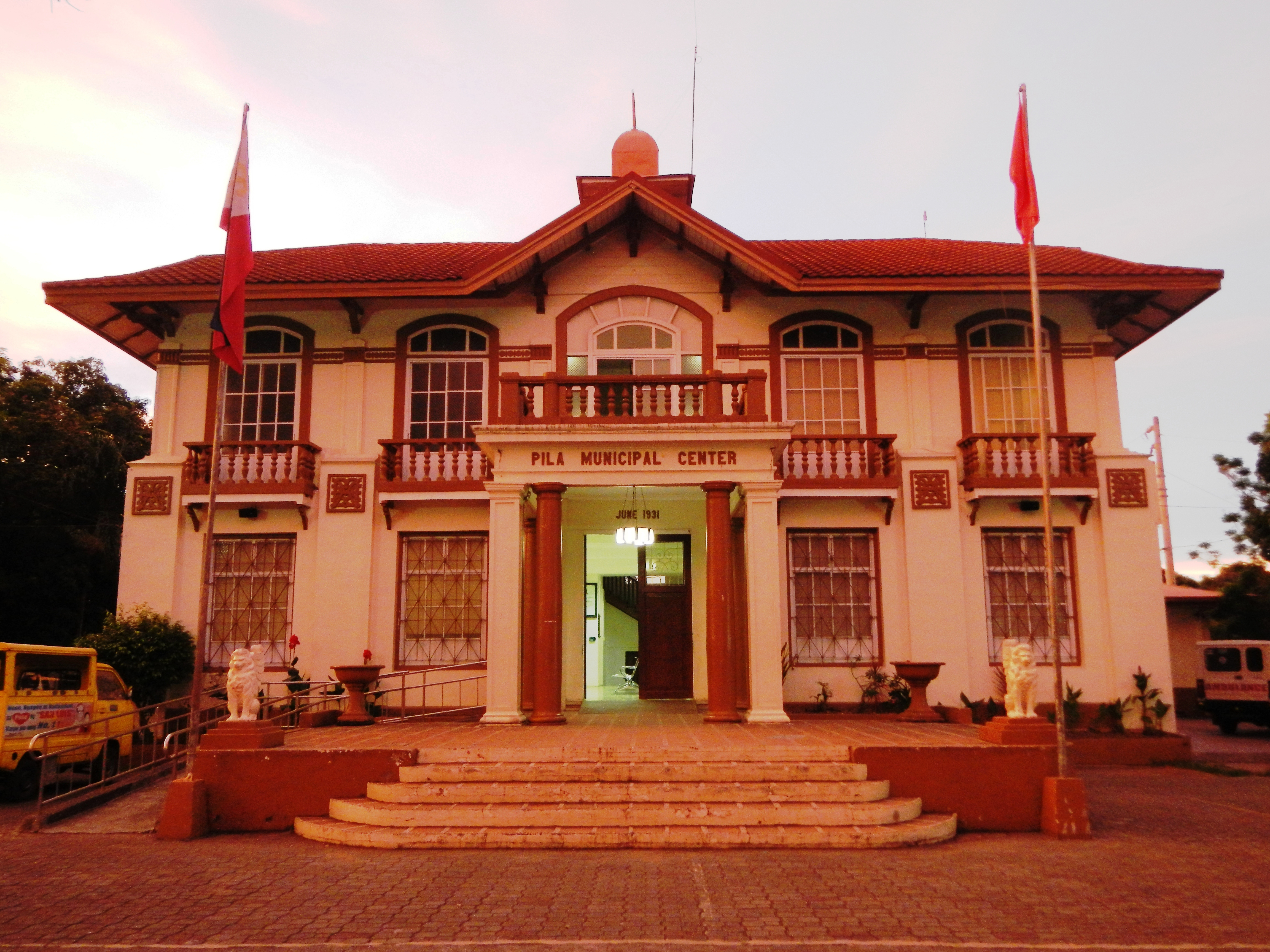 Exclusive, original and rarest phots of the Municipio or Town hall or Municipal Center, including the Sangguniang Bayan or Legislative-Session Hall of Heritage Town & Heritage Houses and Museum of Pila, Laguna of Pila, Laguna[1] is a third class municipality in the province of Laguna, Philippines. According to the latest census, it has a population of 46,534. Pila has a total land area of 31.2 km². The town of Pila is site for some well-preserved houses dating back to the Spanish period as well as the old Saint Anthony of Padua[2] This also served as a location for the reality show, The Amazing Race Asia 2 [3] and the ABS-CBN daytime drama hit series Be Careful With My Heart.[4] Parish Church, the first Antonine church in the Philippines. [5] THE ROOTS OF PILA, LAGUNA: A SECULAR AND SPIRITUAL HISTORY OF THE TOWN (900 AD TO THE PRESENT) Bayang Pinagpala, Pila [6] Coordinates: 14°13'7"N 121°22'29"E Heritage Town of Pila, Laguna The Magnificent Heritage Town of Pila, Laguna The Church of Pila otherwise known as the Diocesan Shrine of San Antonio de Padua The heritage house of Cora Relova. The Relovas are one of the most prominent families in Pila, Laguna. Daniel Padilla’s latest tele-novela was shot in this house. - [7] Pila Laguna, a True Heritage Town Escuela Pia. What could probably be the oldest standing structure. Dn Lorenzo Rivera house, Municipal Hall & Dna. Corozan Rivera the houses of: Dn. Inigo Rivera, Dn. Vicente Mendoza, Dn. Clemente Santiago, Dn Paciente Agre[8] Pila a historical landmark that withstood war, time